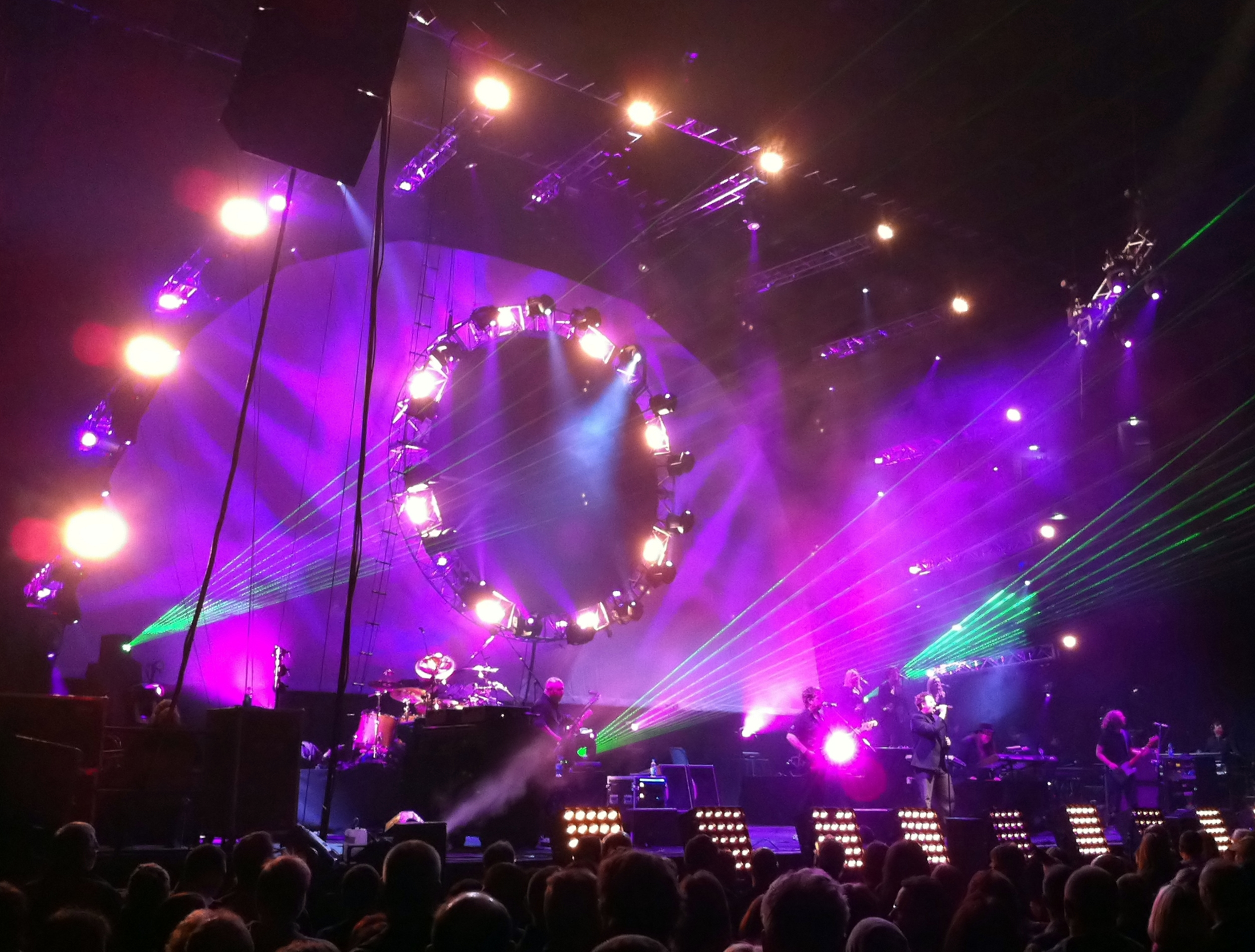 Cologne, Germany: Pink Floyd-Coverband "The Australian Pink Floyd Show"; concert in Lanxess-arena (Kölnarena)